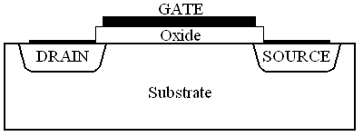 Side view of a MOS transistor